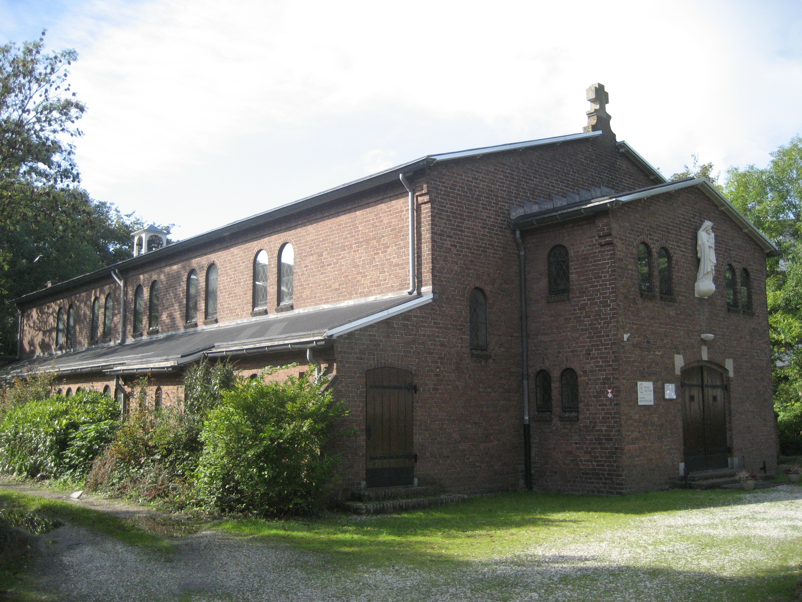 Church Maria Middelares in Leiden, The Netherlands (Stevenshof). SMM. Architects: J.J. Schrama, H.A. van Oerle. Built 1948-1949